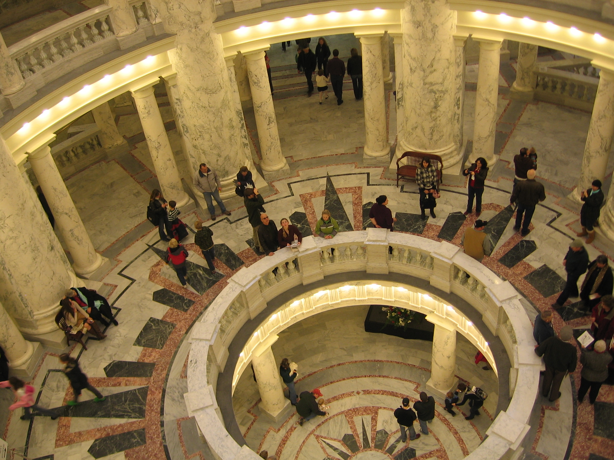 Scagliola pillars at the renovated Idaho Capitol.